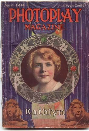 Kathlyn Williams